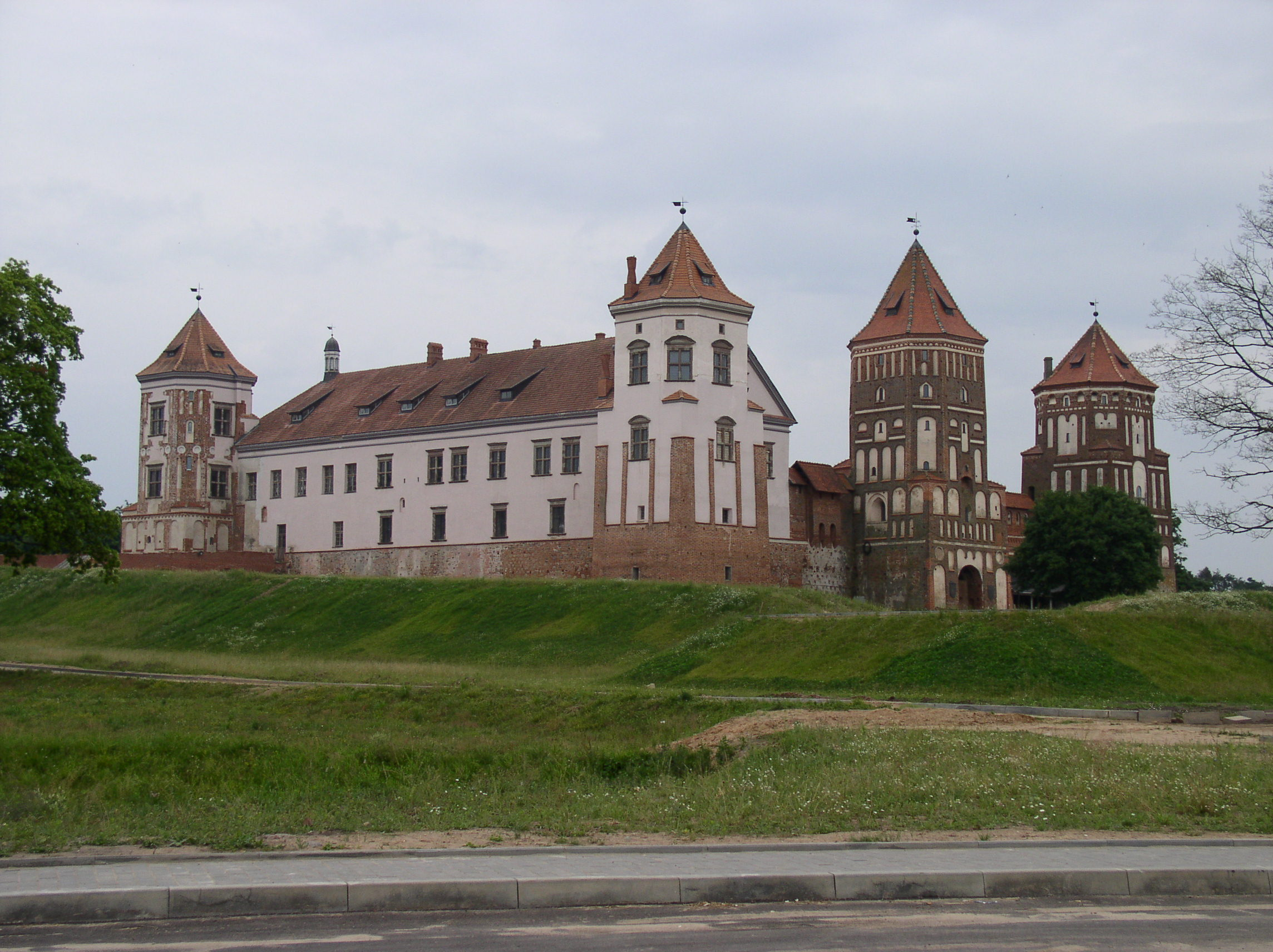 Castle, Mir, Belarus.